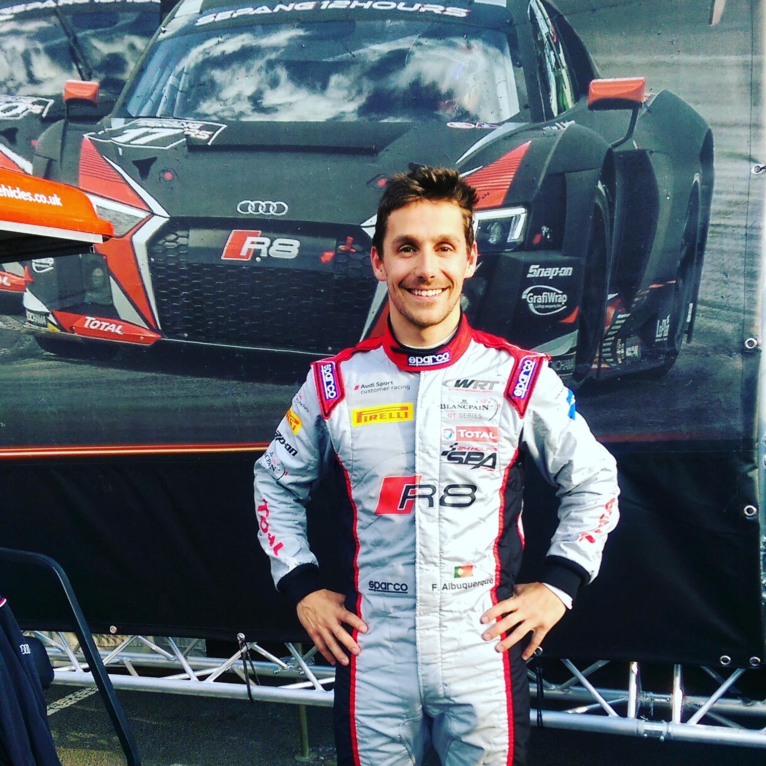 Photo of Filipe Albuquerque in Silverstone, May 2016 for the Blancpain GT Series race.